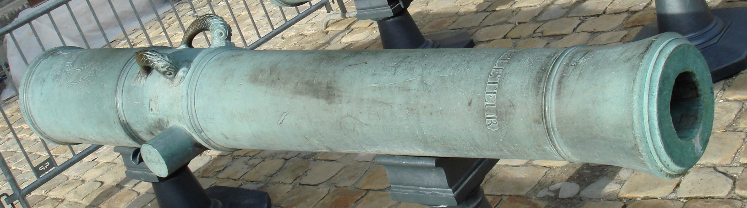 Gribeauval_1772_with_dolphin_handles, cannon de 24 (Caliber 151 mm).